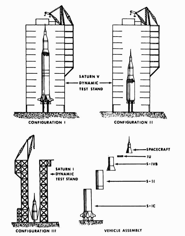 Saturn V dynamic testing was conducted in three configurations: Configuration I simulates the flight vehicle configuration during the first phase of flight, when the first stage, S-IC provides thrust, and is made up of the S-IC-D, the S-II-S/D, the S-IVB-D stages, the S-IU-200D/500D instrument unit and the BP-027 spacecraft. Configuration II simulates the flight vehicle configuration during the second phase of flight, when the second stage, S-II provides thrust, and is made up of the S-II-S/D, S-IVB-D, the S-IU-200D/500D and the BP-27. Configuration III simulates the flight vehicle configuration during the third phase of flight, when the third stage, S-IVB provides thrust, and is made up of S-IVB-D, the S-IU-200D/500D and the BP-27.